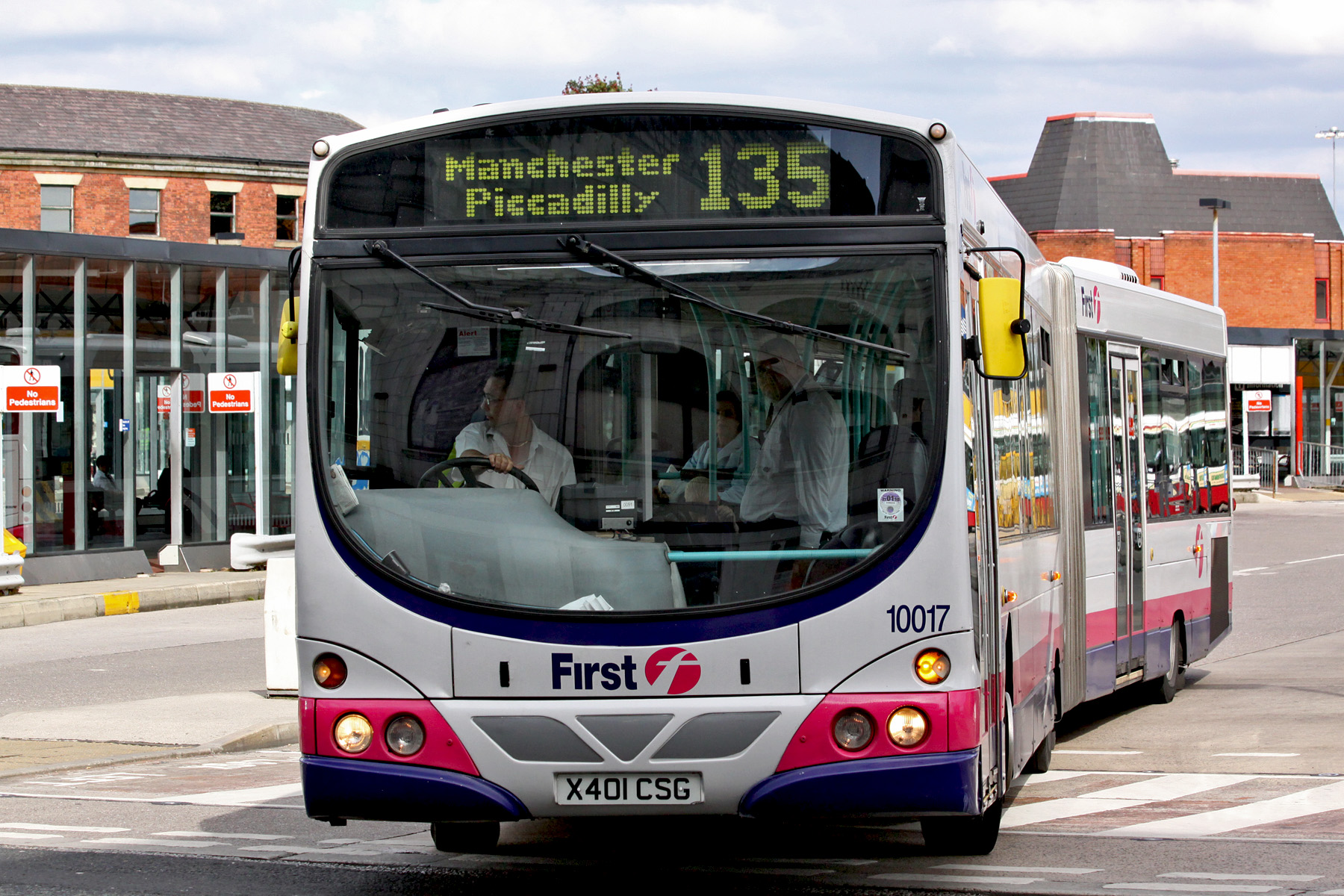 First Manchester Limited 10017 (X401 CSG), a Scania L94UA built in 2001 with a Wright Solar Fusion AB59D body departs from Bury Interchange onto Haymarket Street with a Bury Interchange to Manchester Piccadilly Gardens via Whitefield, Heaton Park and Cheetham Hill 135 service.